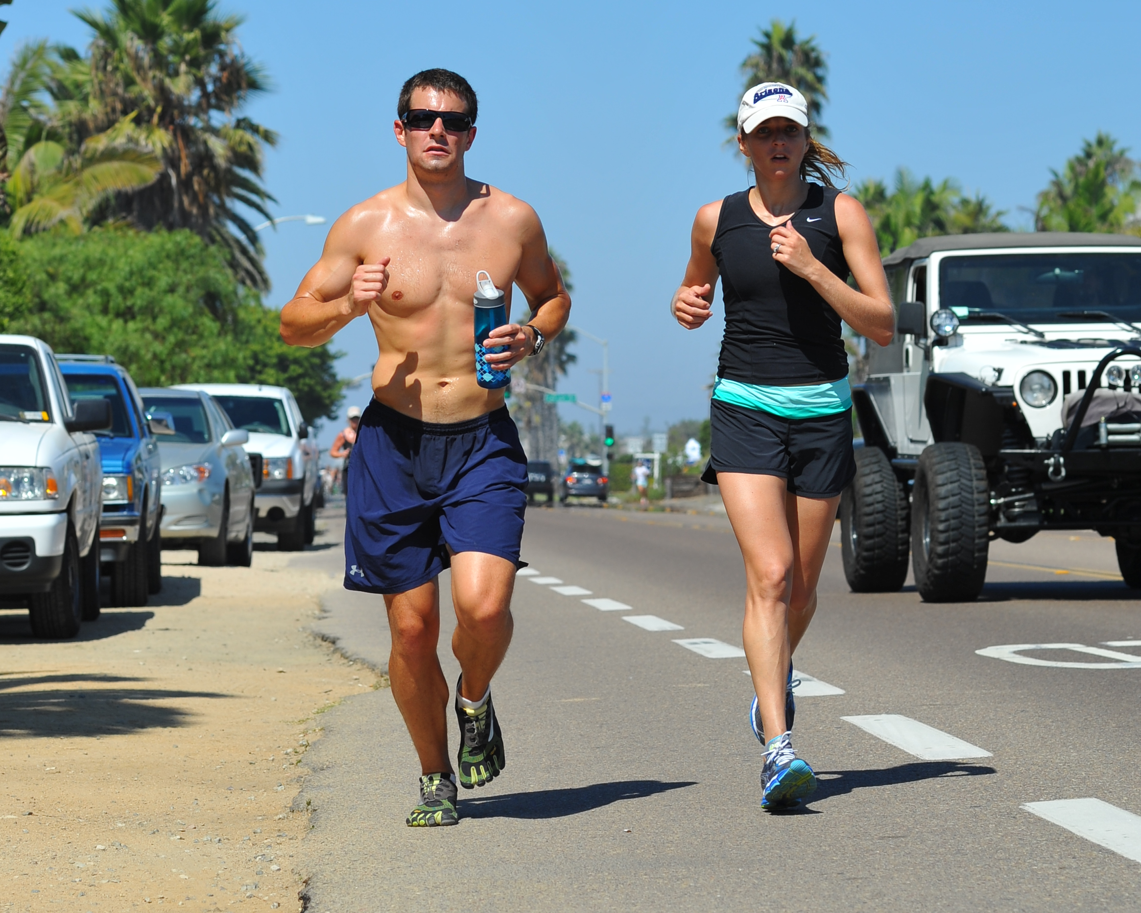 A man and woman run along a roadside bicycle path. The man wears barefoot running shoes and hence uses a fore-foot strike while the woman strikes the ground heel first since a more cushioned shoe accomodates this running technique. For more information on how the toe (aka barefoot) running shoes have changed people's running style, please read, Running Shoes Changed How Humans Run , by Rachael Rettner. YFY_7725_cr